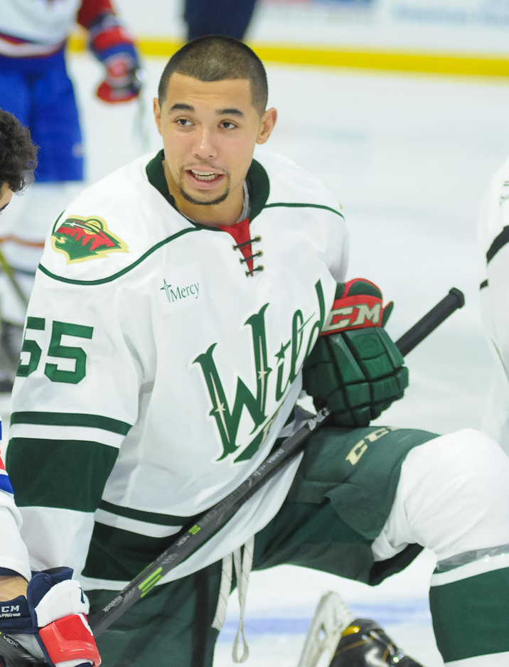 Lindsay A. Mogle/AHL